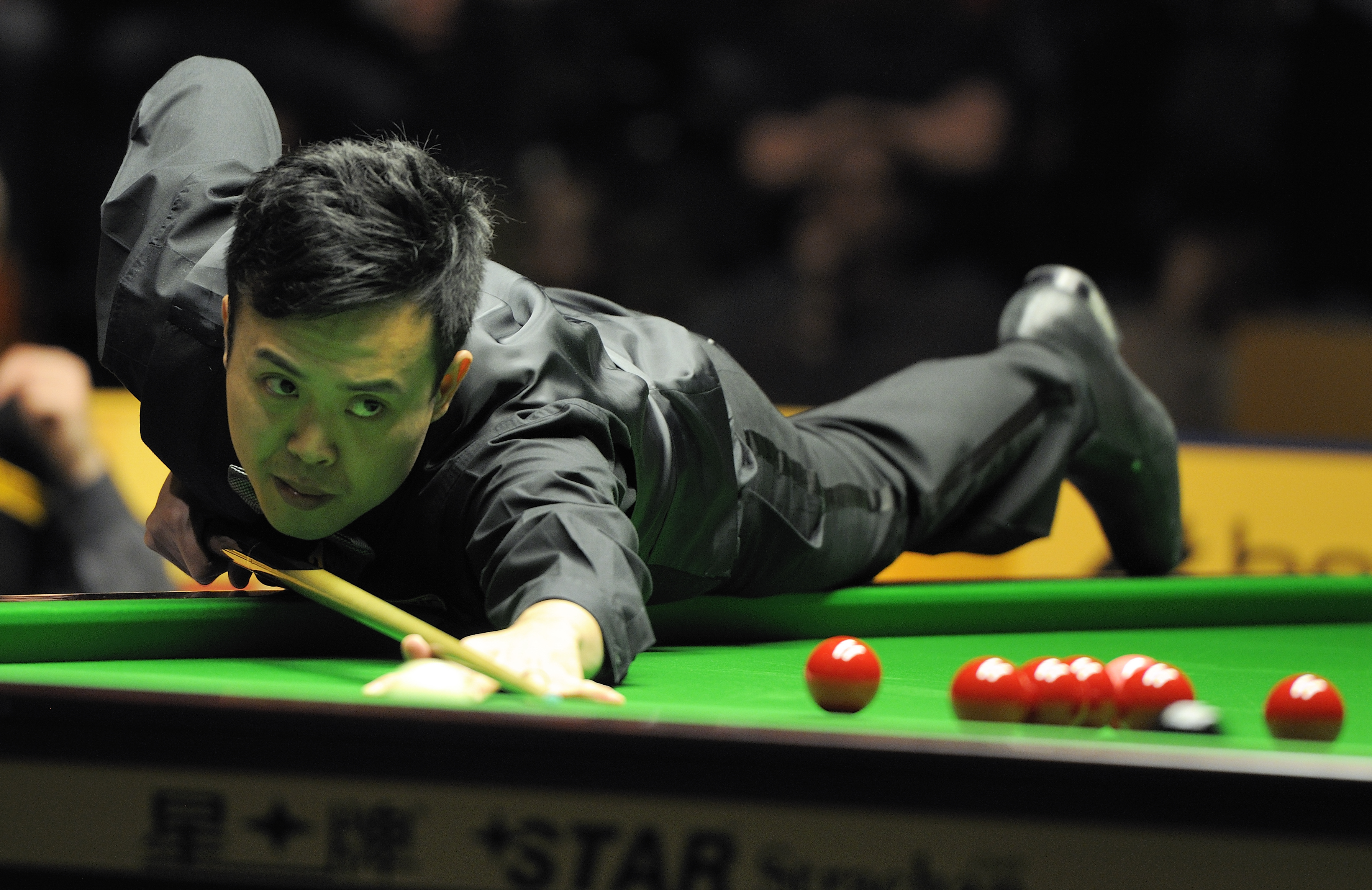 Picture taken in Berlin during the Snooker German Masters in 2013. Marco Fu.